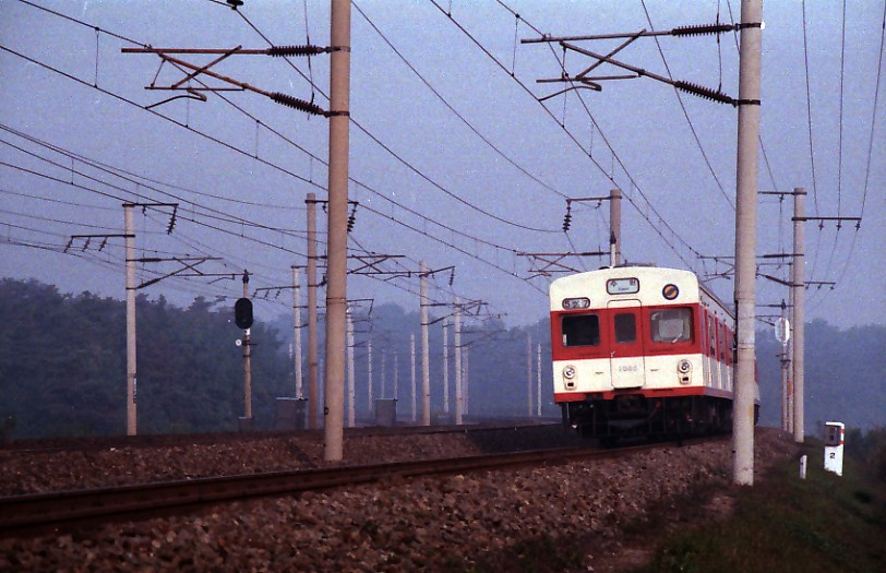 Seoul Subway (now Seoul Metro) EMU Series 1000 (old), through service bound for Suwon station. Between Sungkyunkwan Univ. to Hwaseo on Gyeongbu Line, Korean National Railroad, year 1988.